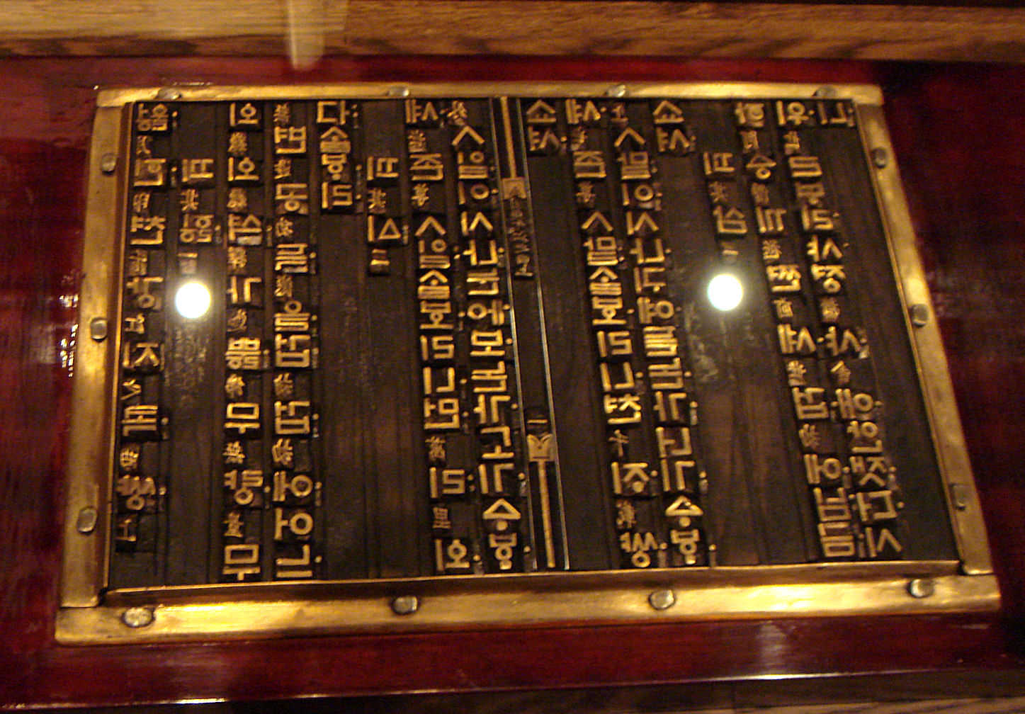 Original historique item of the "Worin cheongangjigok" (月印千江之曲 / 월인천강지곡, "Moon reflection on thousand rivers song"), bouddha biography at printing museum in Tokyo, Japan.